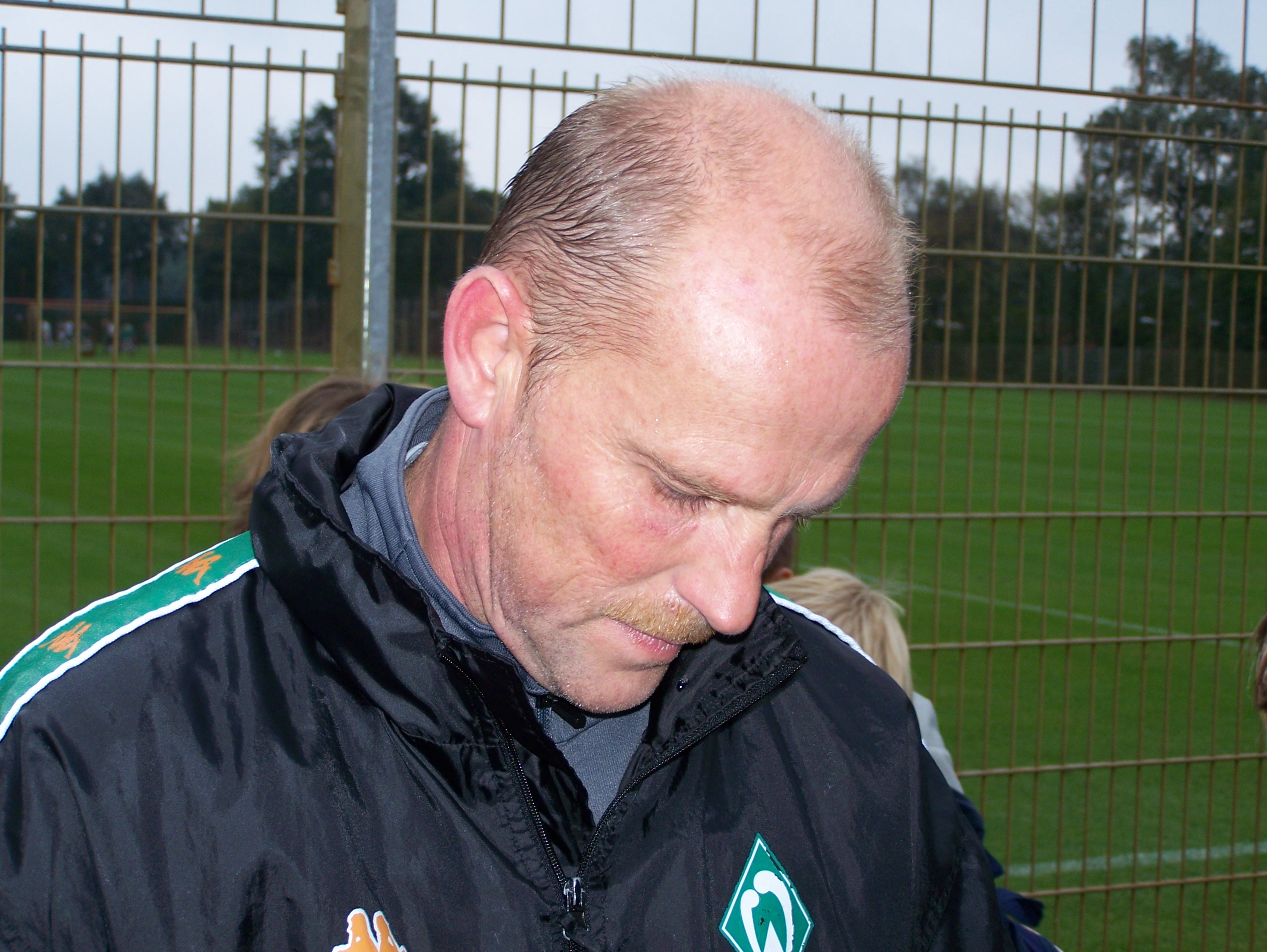 Thomas Schaaf